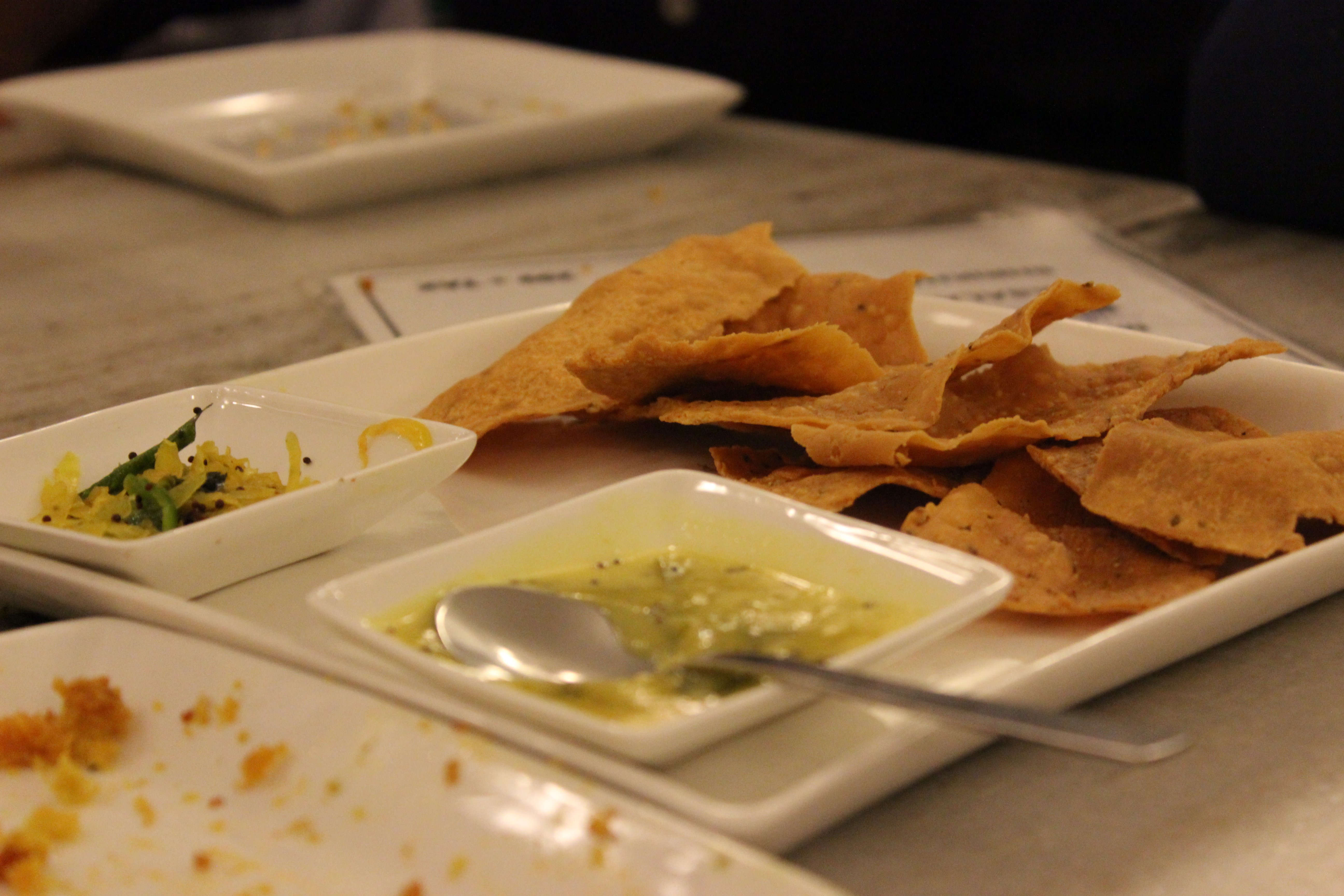 Fafda is a delectable savory that is served as a teatime treat or eaten as nibbles. An all time favorite morning snack with masala chai. Served with besan chutney and chili papaya.